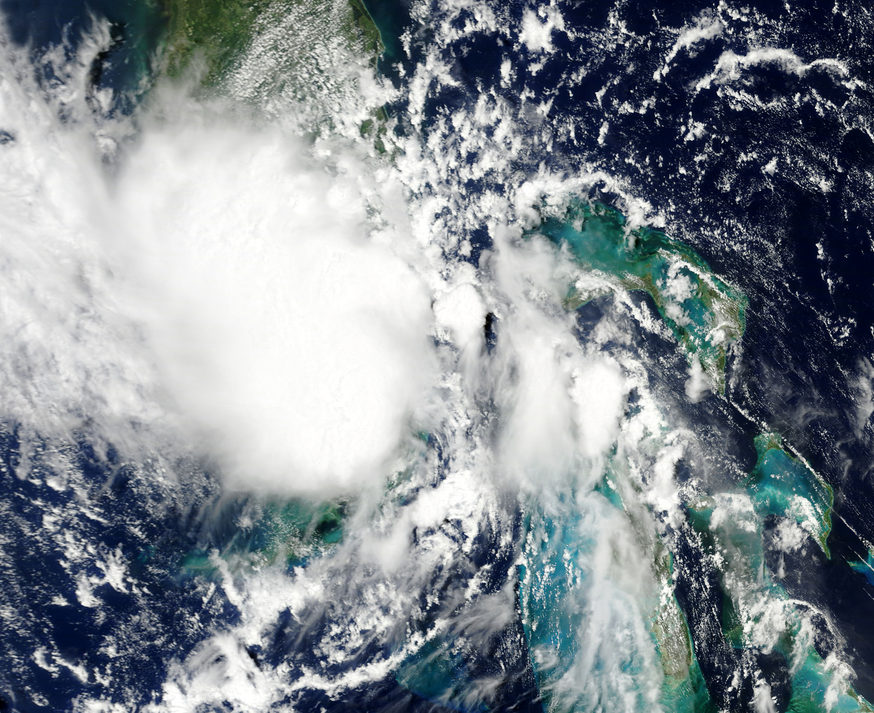 Tropical Storm Bonnie over Florida.